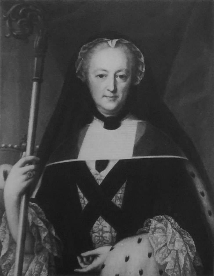 Anne Charlotte de Lorraine (1714-1773), Abbesse de Remiremont et de Mons